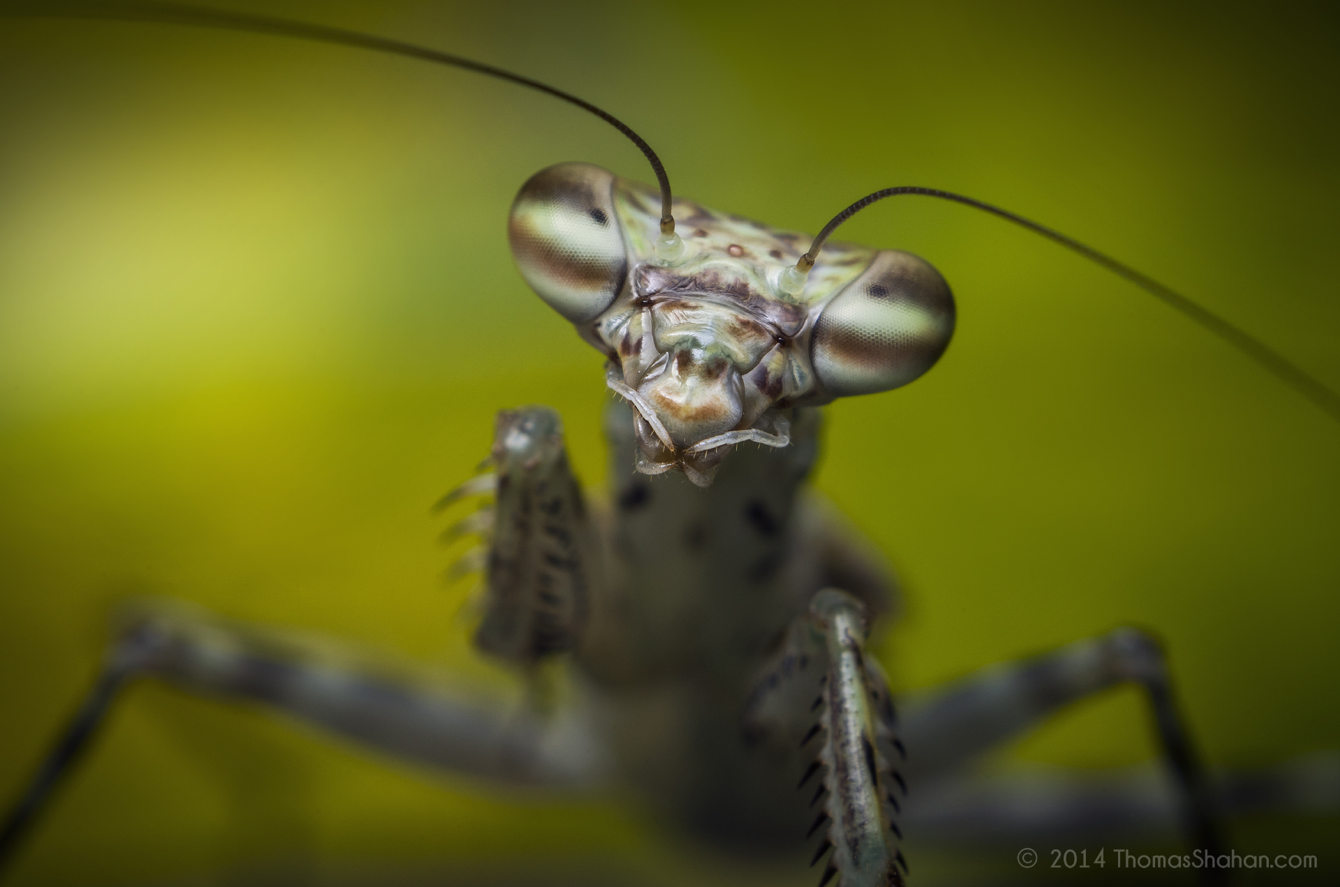 Liturgusa sp. (immature bark mantid), Belize